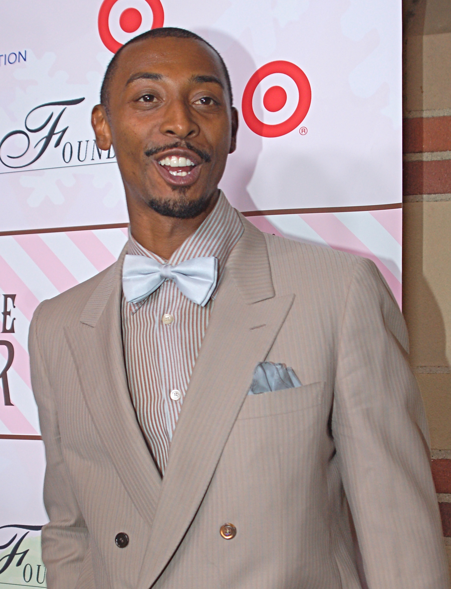 Darris Love at a performance of The Hot Chocolate Nutcracker in December 2010.